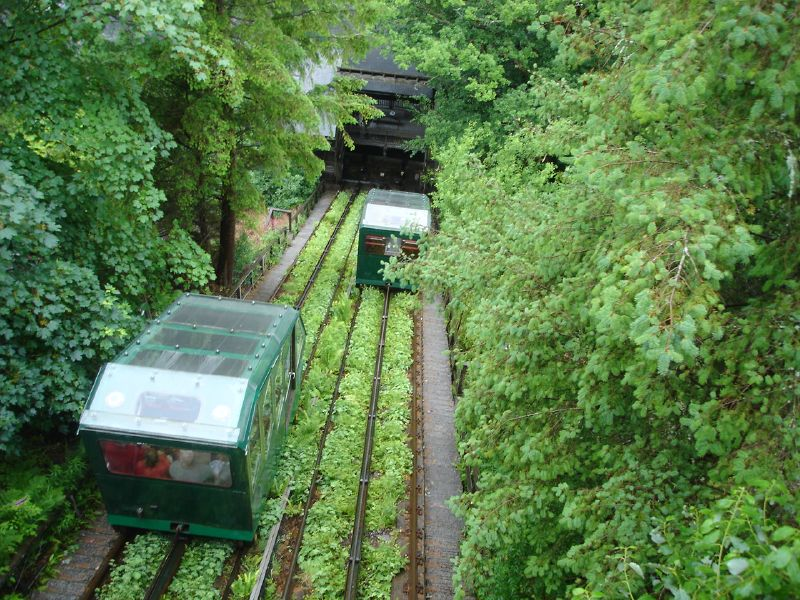 DSC02806, Cliff Railway at Centre for Alternative Technology, Machynlleth Mchynlleth